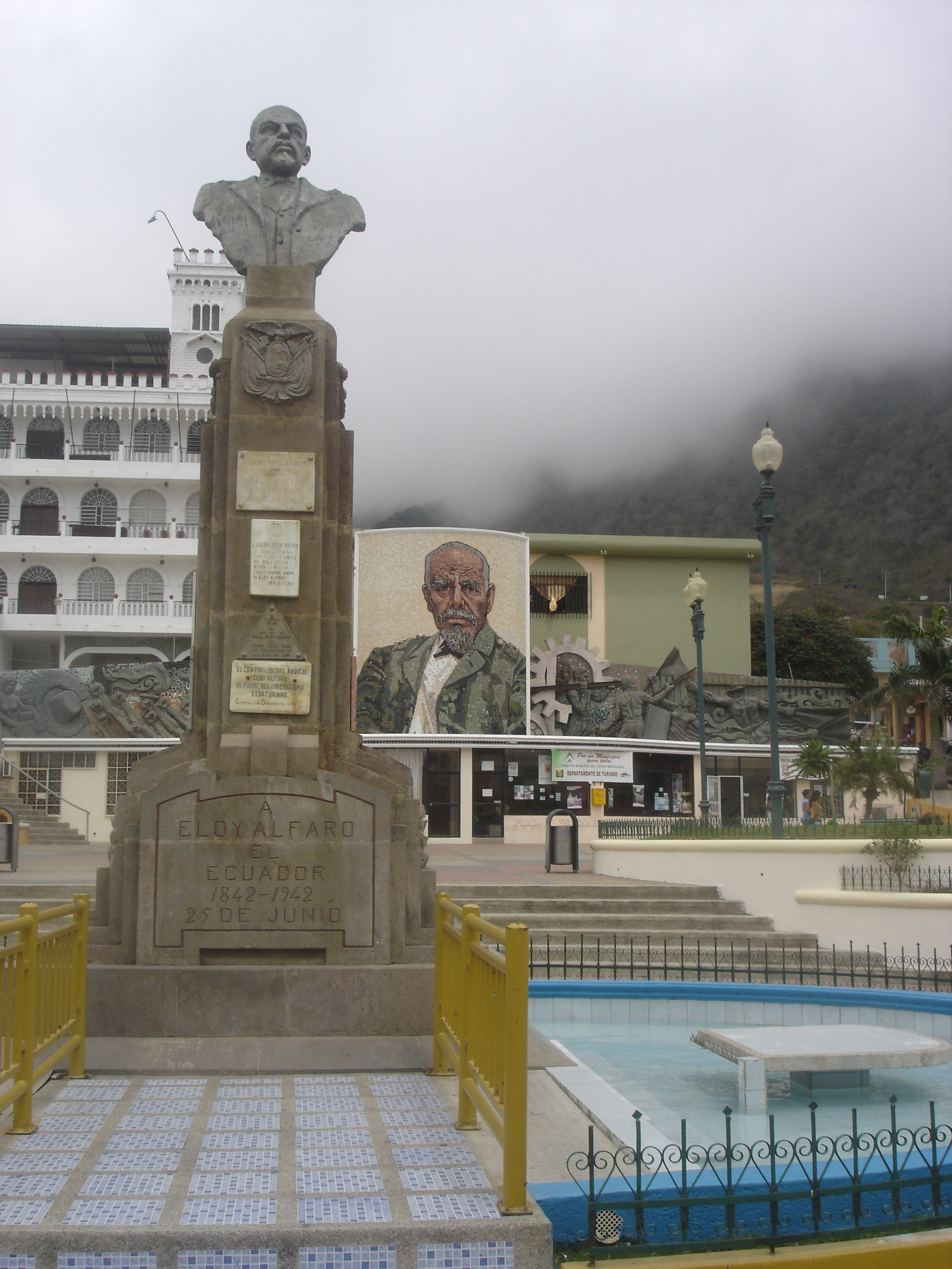 Statue and monumental portrait of President Eloy Alfaro in Montecristi, Ecuador